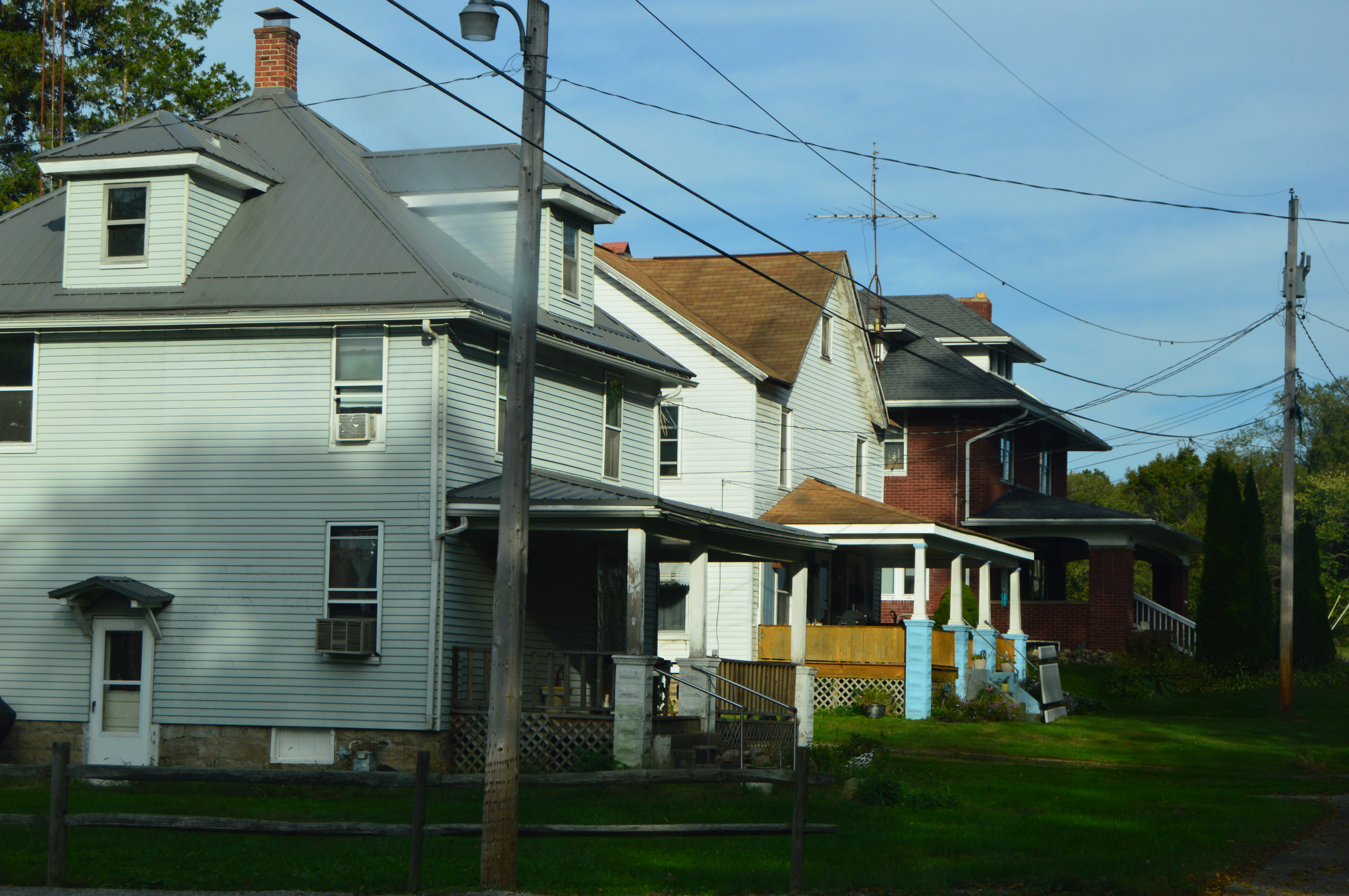 Houses on Loper Road at Hadley in northwestern Perry Township, Mercer County, Pennsylvania, United States.